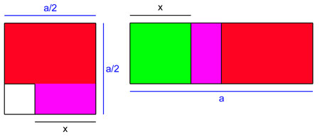 Quadratic equation by geometry (3)